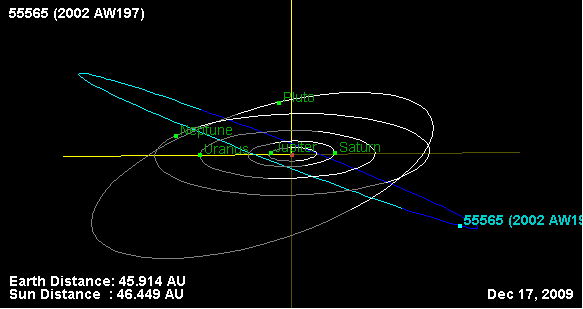 (55565) 2002 AW 197 orbit